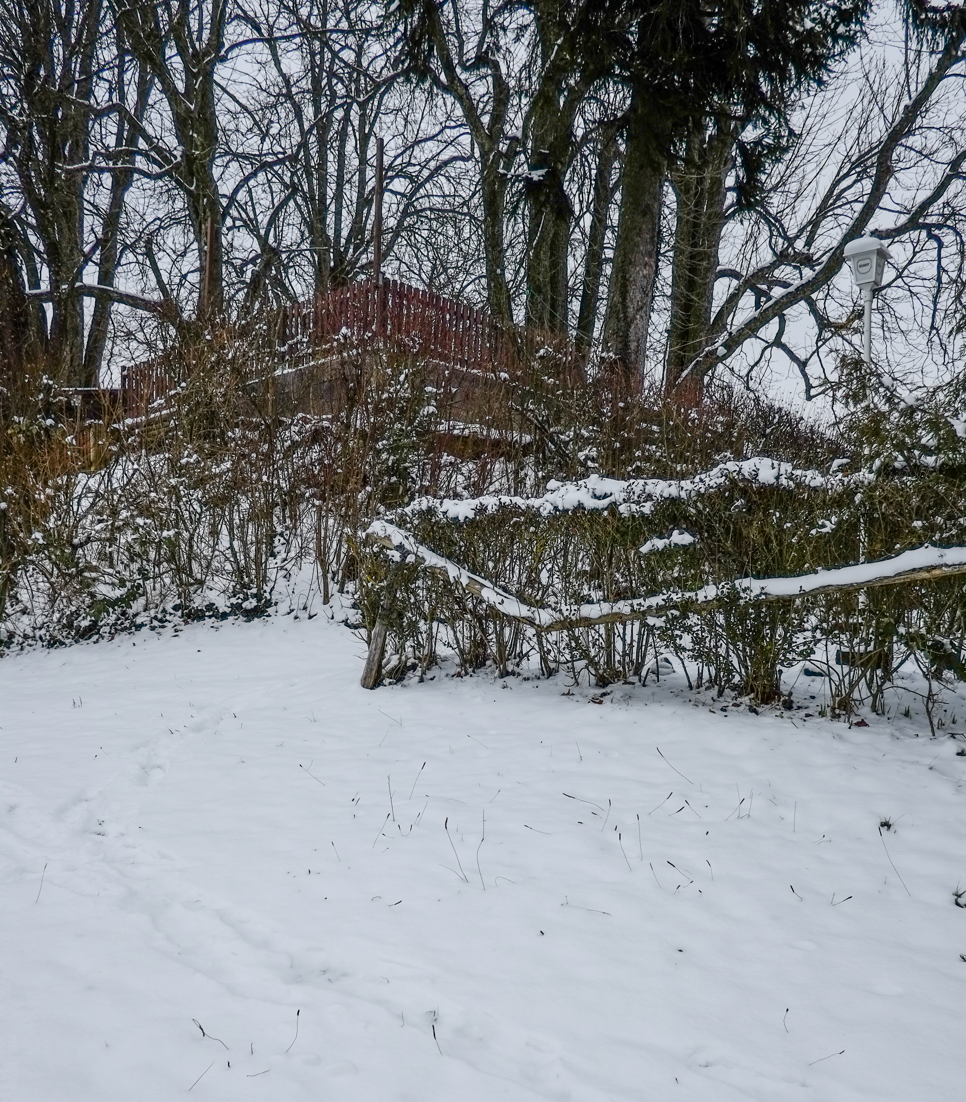 Place of the vanished castle Neue Burg , Friedrichshafen-Raderach, Baden Wurttemberg, Germany